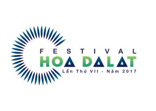 Logo of Dalat Flower Festival 2017